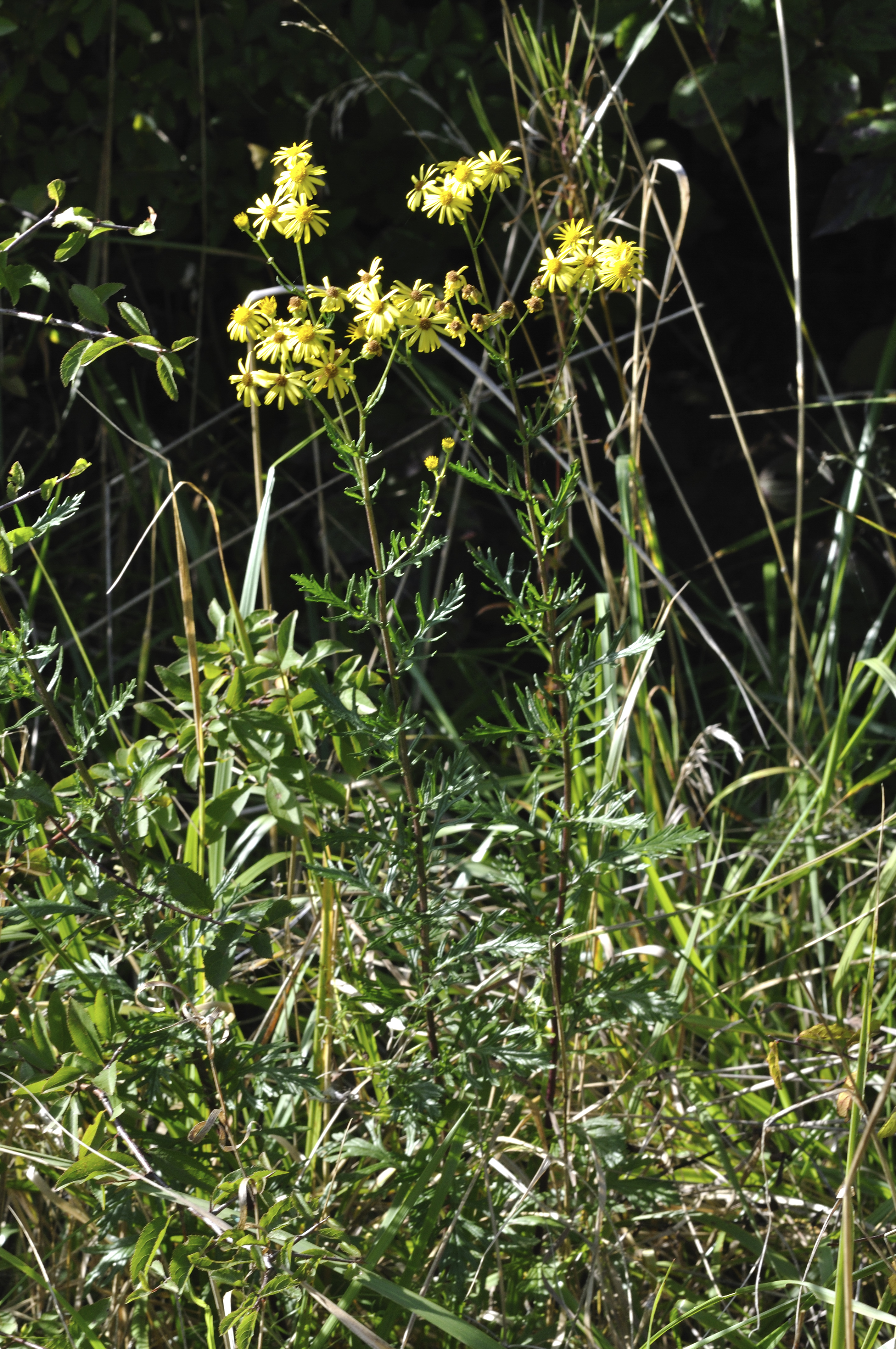 Hoary Ragwort (Senecio erucifolius ssp. tenuifolius) near the old airstrip, Frankfurt, Germany.